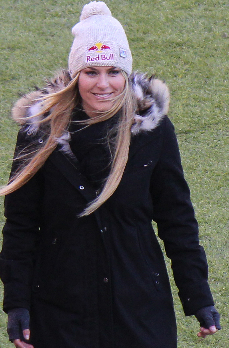 Lindsey Vonn on December 28, 2014. The picture was taken at Sports Authority Field at Mile High in Denver, Colorado after Vonn delivered the ceremonial first ball at a Denver Broncos NFL football game.